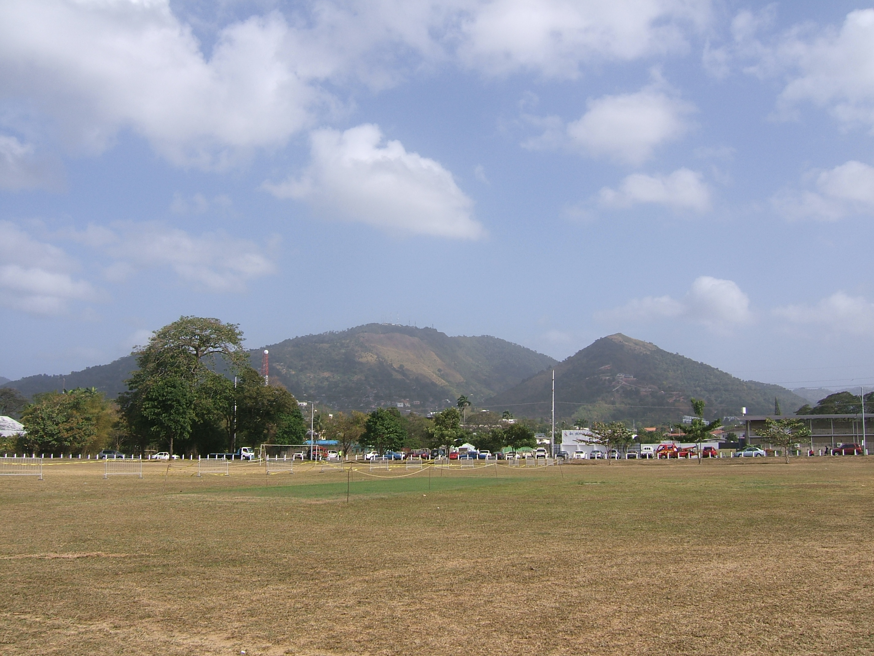 Entrance to the Sabina Park stadium.